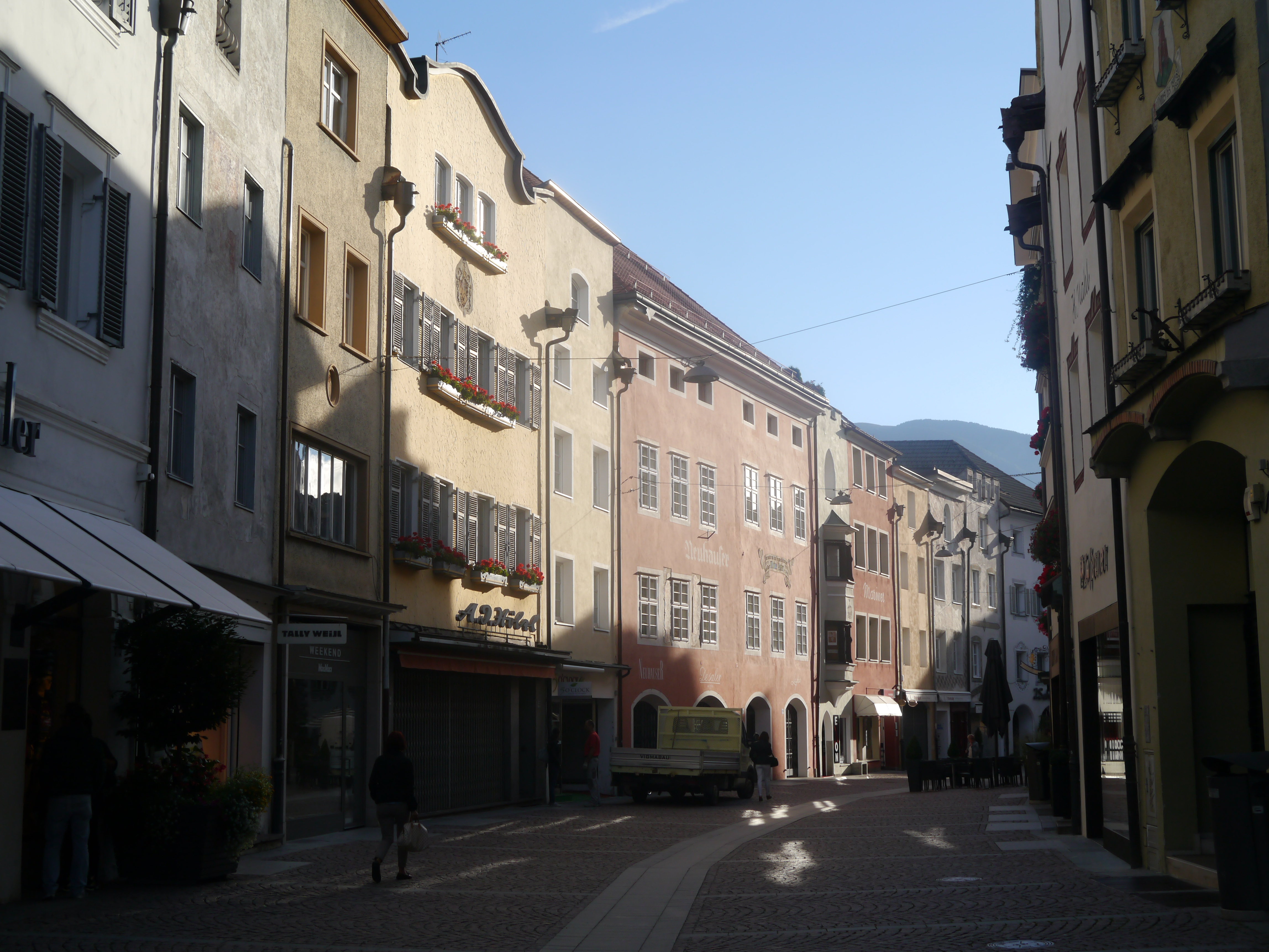 Town Street, Brunico, Province of Bolzano (South Tyrol), Region of Trentino-Alto Adige/Südtirol, Italy